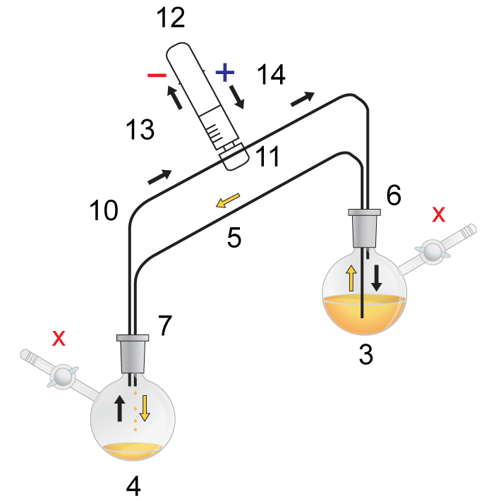 Air sensitive cannula - syringe valve 1: - 2: - 3: Higher flask with transfer liquid (yellow) to transfer 4: Lower receiving flask/transfered liquid (yellow) 5: Liquid transfer cannula 6: Septum (orange) on transfer flask 7: Septum (orange) on receiving flask 8: - 9: - 10: Gas cannula 11: 2-way syringe stopcock 12: Gas-tight syringe 13: Gas/pressure removed from flask 4 14: Gas/pressure added to flask 3 O = Open stopcock; X = Closed stopcock; black-arrow = Gas flow direction, orange arrow = Liquid flow direction